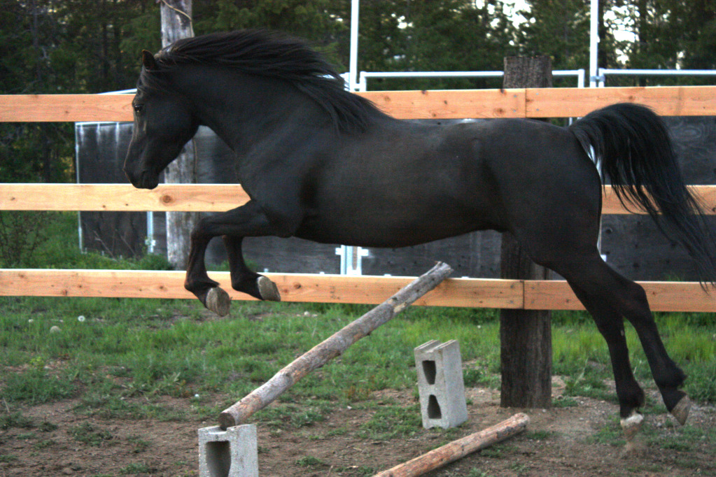 arabian gelding free jumping.